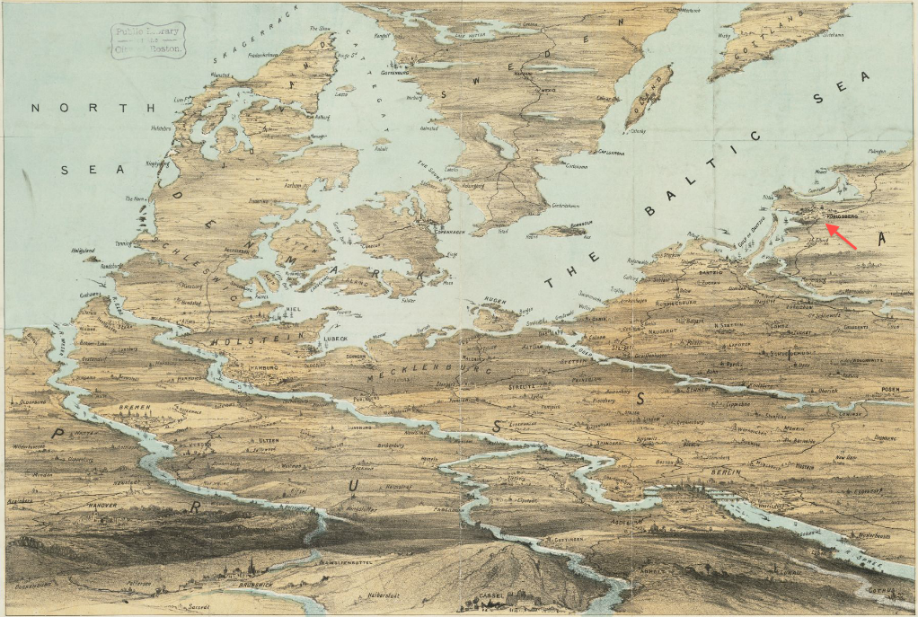 Stannard & Son's, panoramic birds-eye view, of Berlin & its defences, the principal Prussian ports on the Baltic, with Denmark and Schleswig Holstein Author: Packer & Griffin Publisher: Stannard & Son Date: 1870 Dimension 46 x 69 cm. Scale: Not drawn to scale